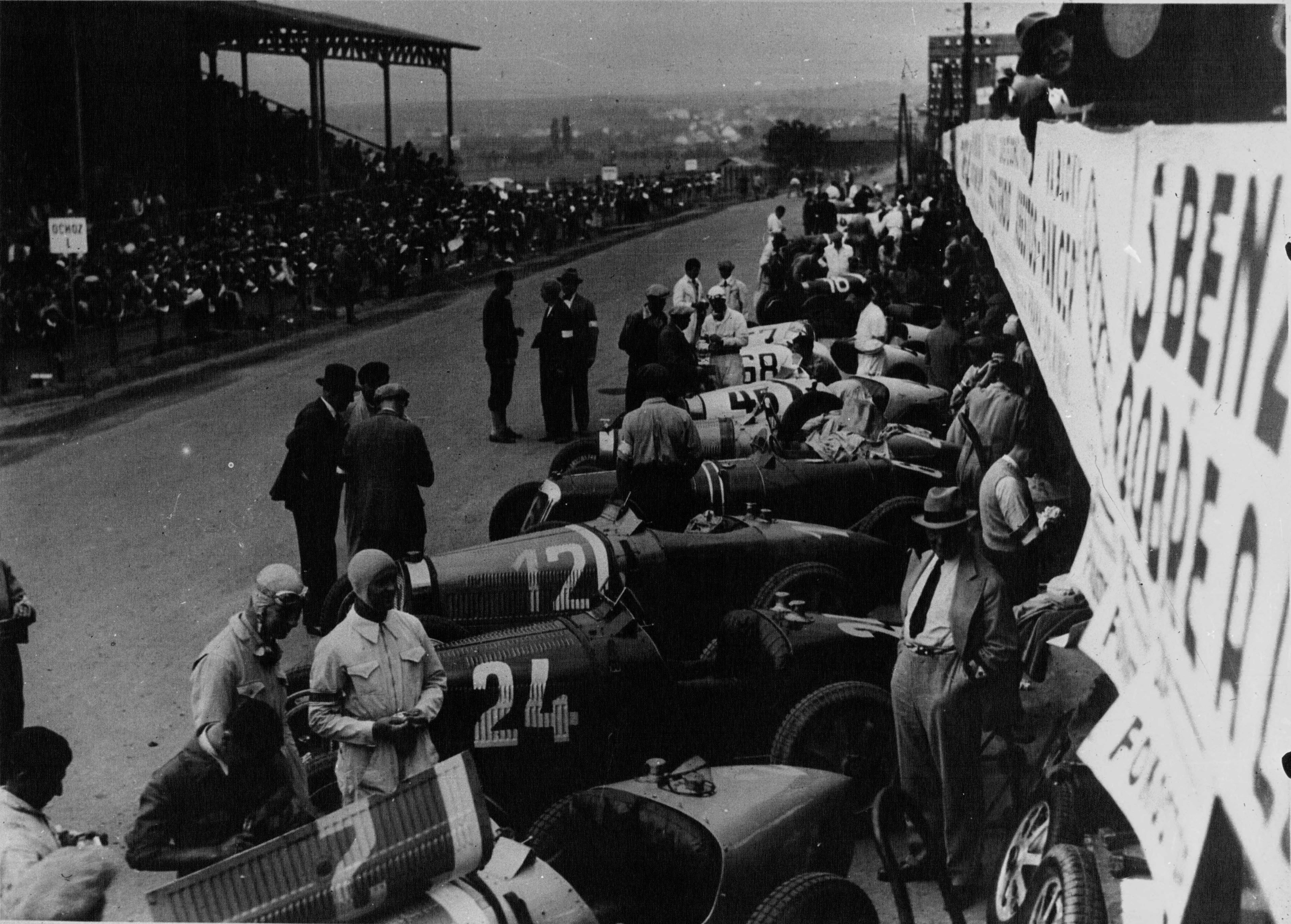 Racecars at the 1932 Masaryk Grand Prix